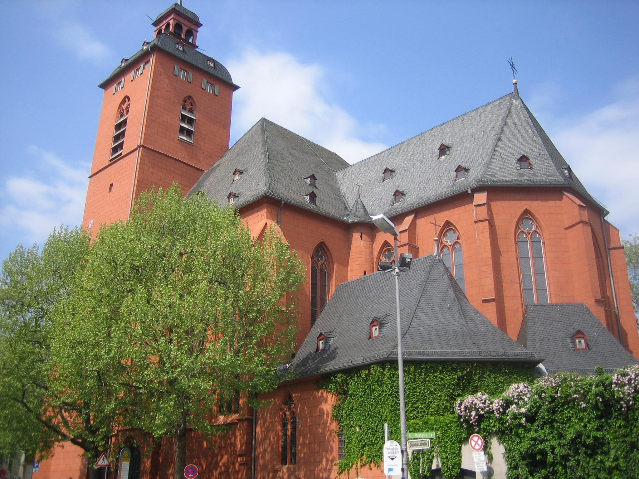 Gothic hall church St. Quintin in Mainz